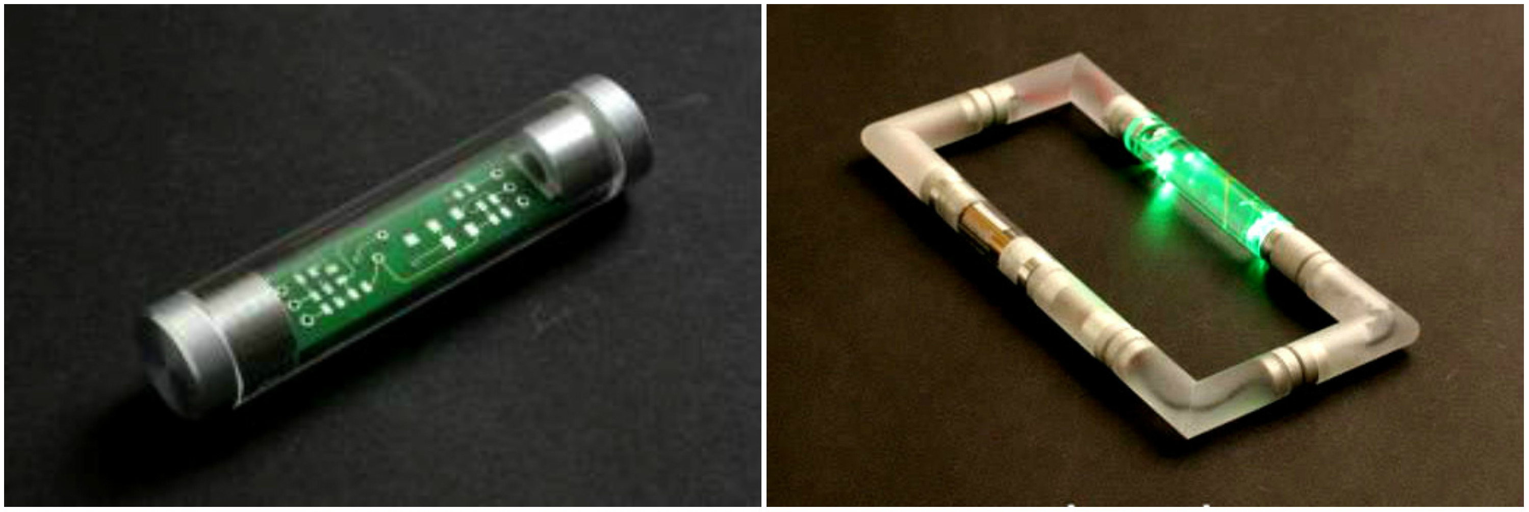 Copper Edition